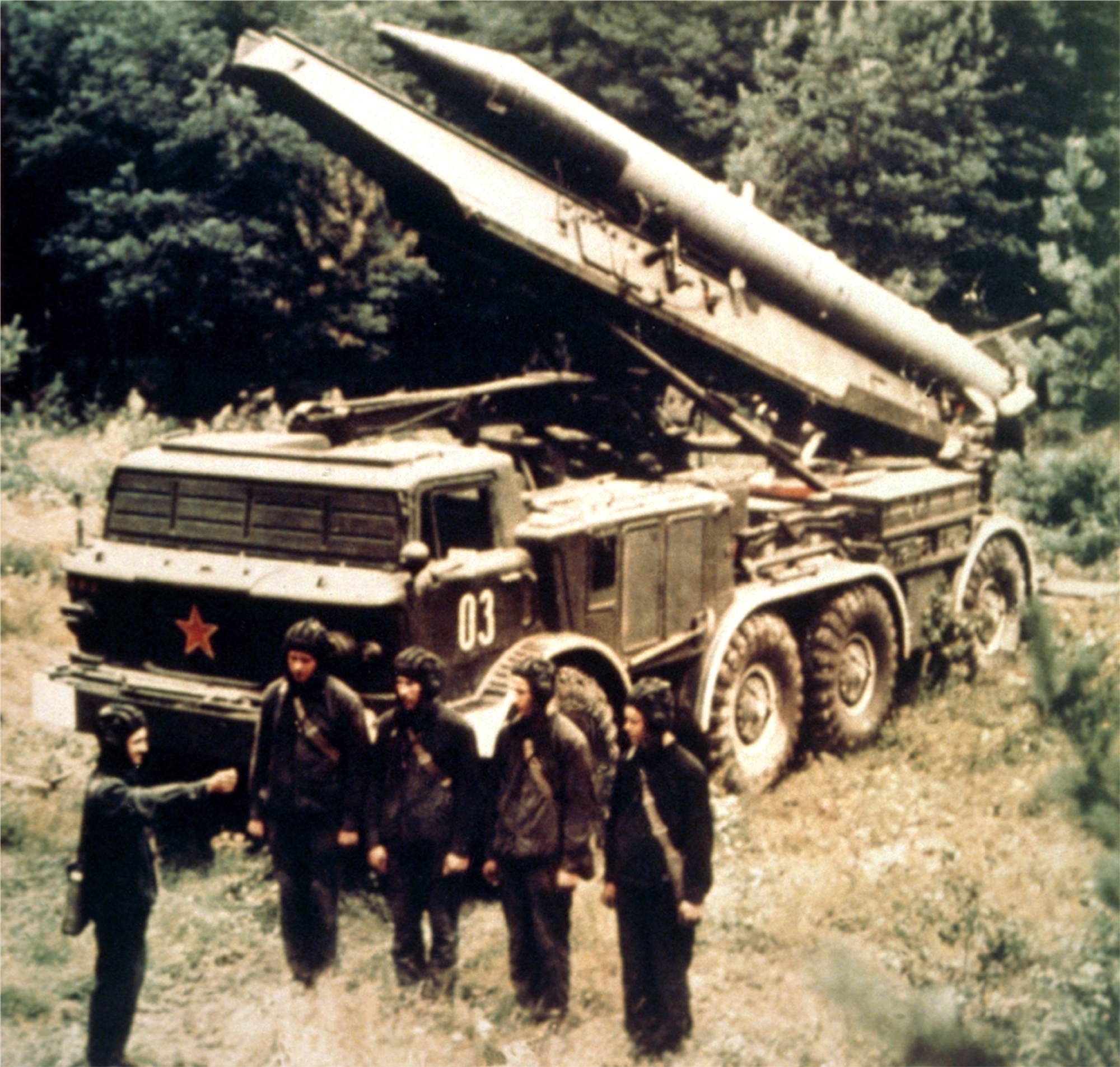 A view of a Soviet FROG-7 tactical nuclear surface-to-surface missile.